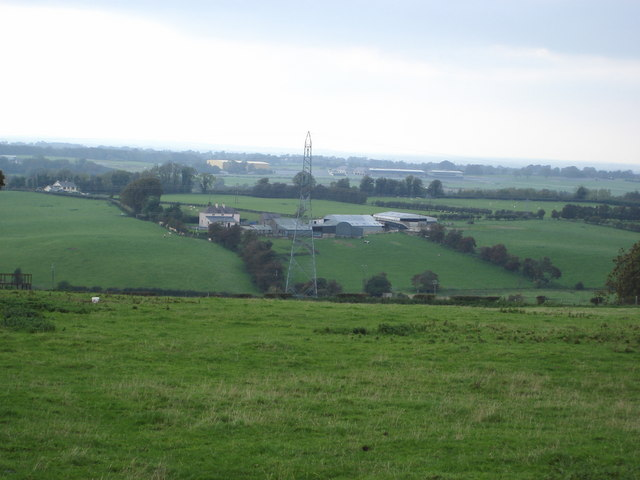 Tipperkevin looking towards Punchestown Racecourse Co Kildare